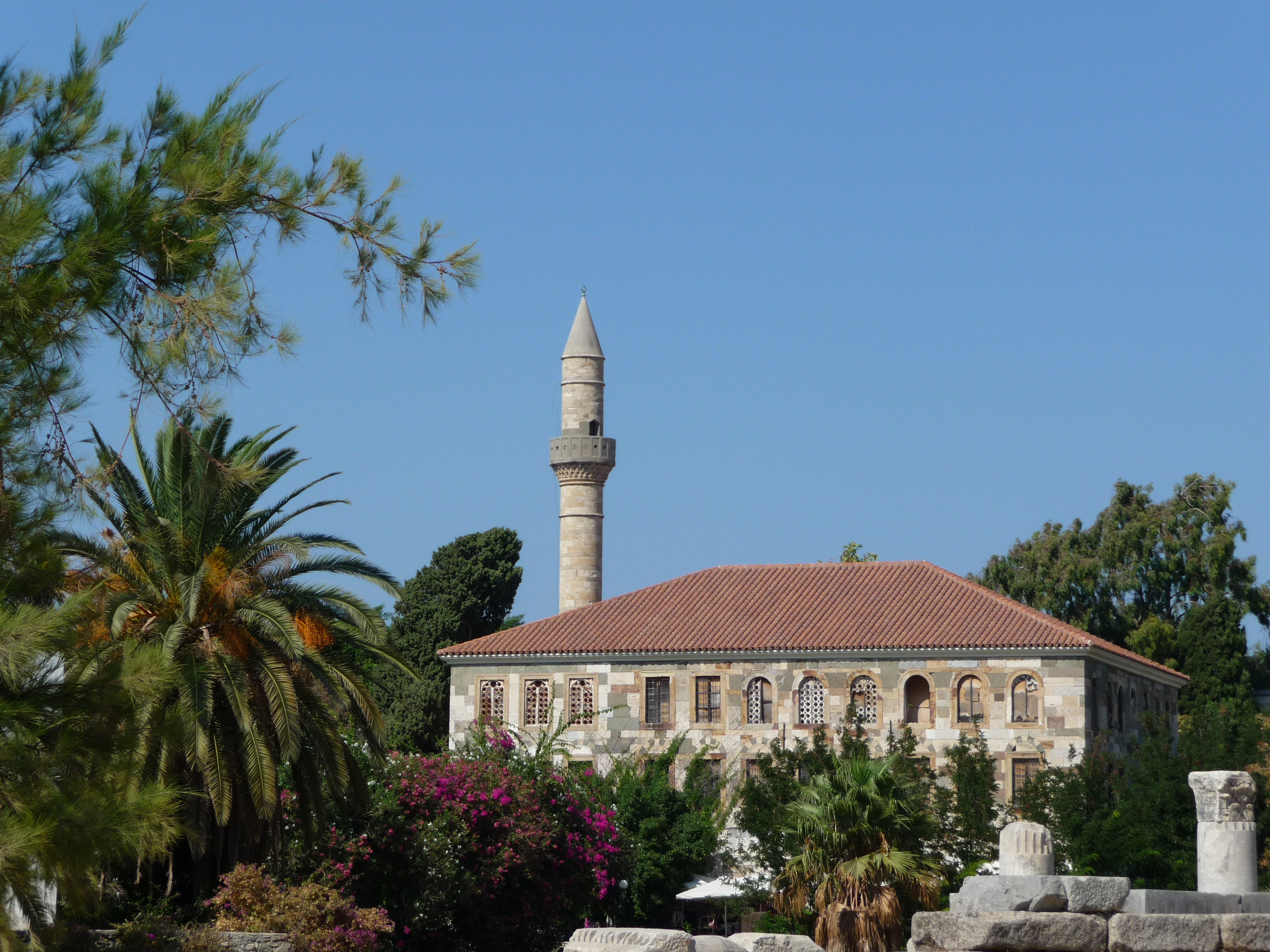 The Gazi Hassan Pasha Mosque in Platía Platanou, Kos Town.